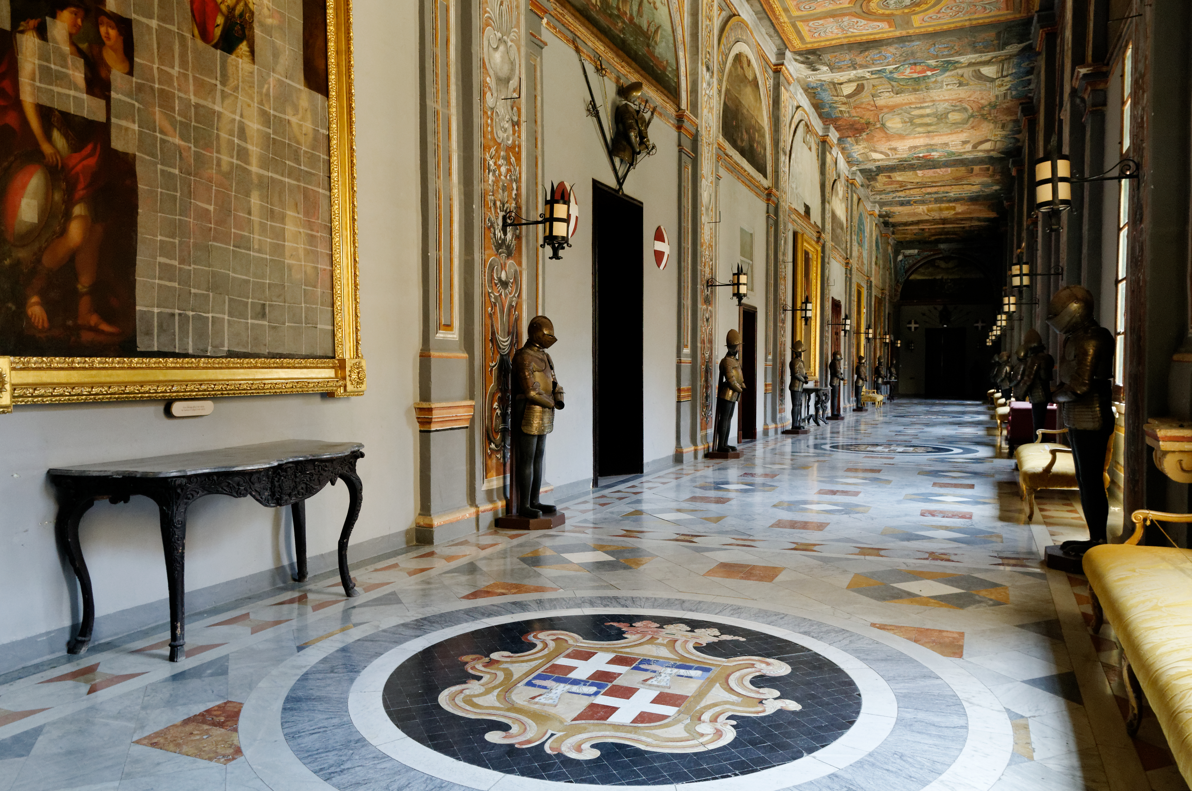 Grandmaster's Palace in Valletta, Malta.